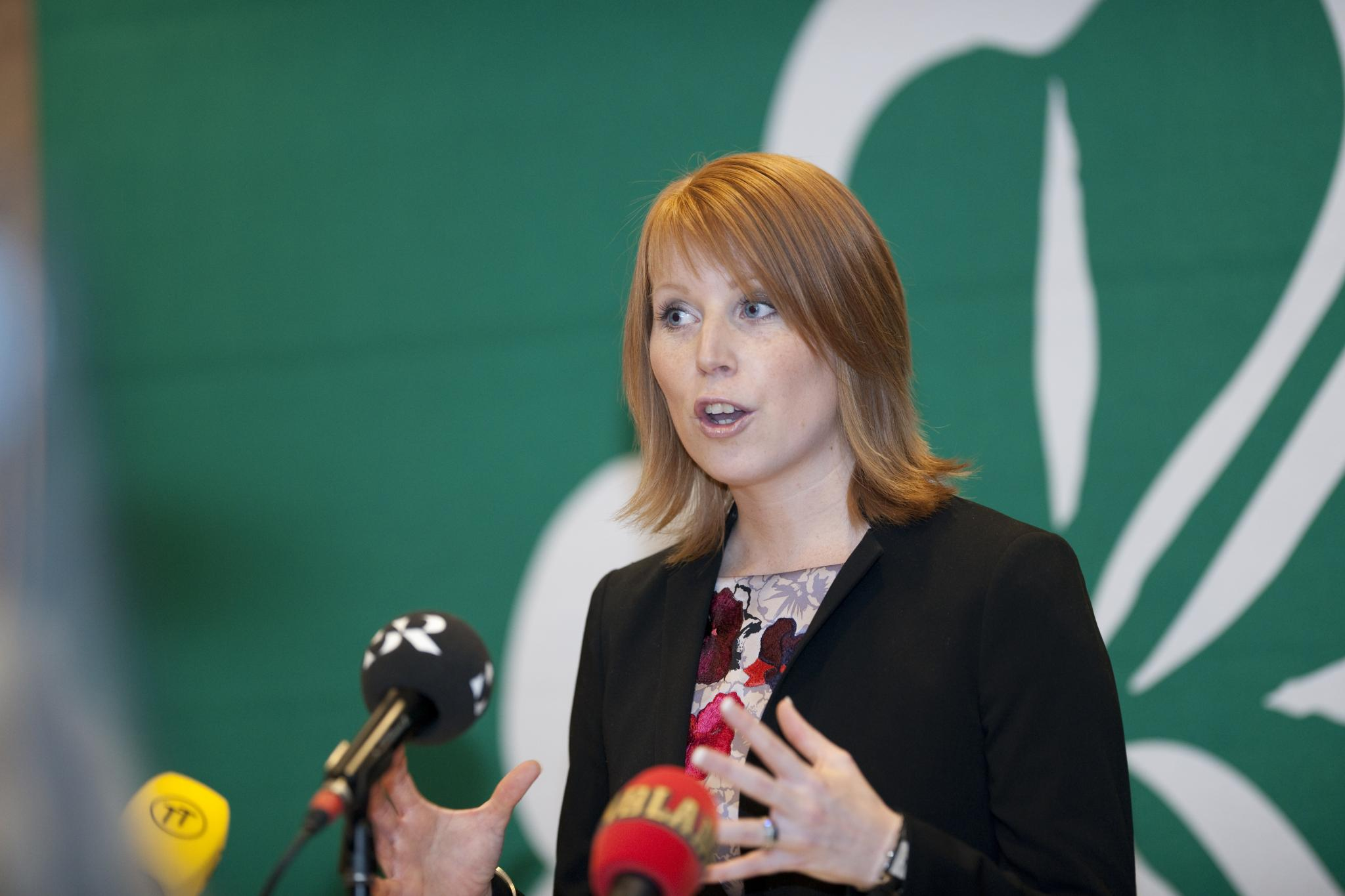 Ange fotograf Patrick Trägårdh